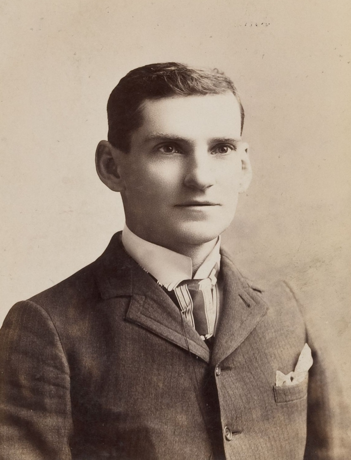 Cabinet card image of American stage and silent film actor George Berrell (1849-1933). Cropped version. TCS 1.2429, Harvard Theatre Collection, Harvard University.